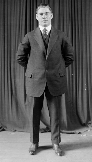 Full-length portrait of boxer Les Darcy standing with his hands behind his back in front of a dark colored backdrop in a room in Chicago, Illinois.